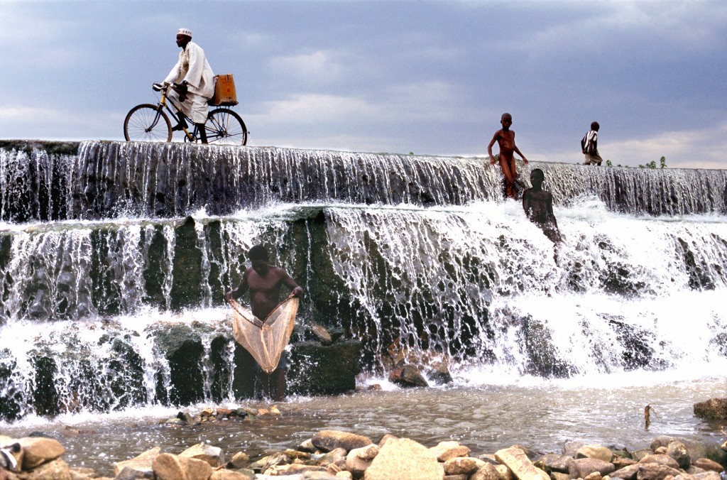 Waterfall Garoua Kameroen